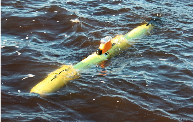 Gavia AUV